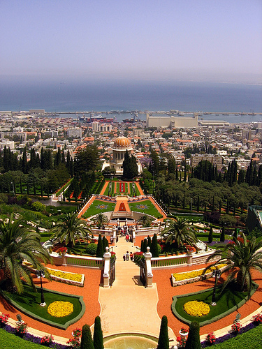 Shrine of the Báb and its associated terraces at the Bahá'í World Centre, Israel